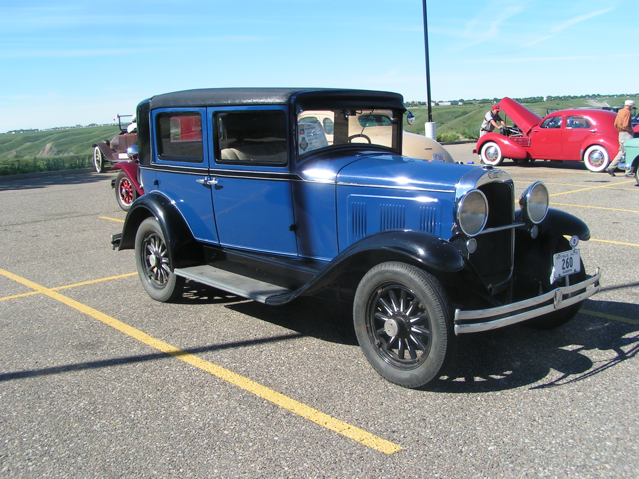 1930 Willys Six